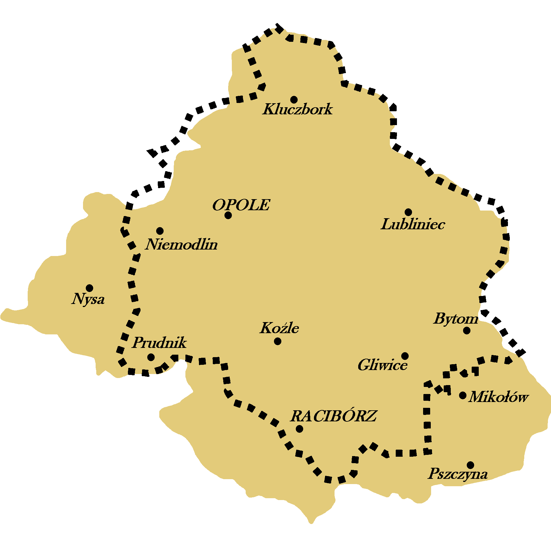 Duchy of Oppeln under Jan II the Good (c. 1460 – 27 March 1532) - black dotted line (based on: Paweł Mostowik: Z dziejów Księstwa Oświęcimskiego i Zatorskiego XII-XVI w. Toruń: 2005, p. 204), with the german Province of Upper Silesia in the background